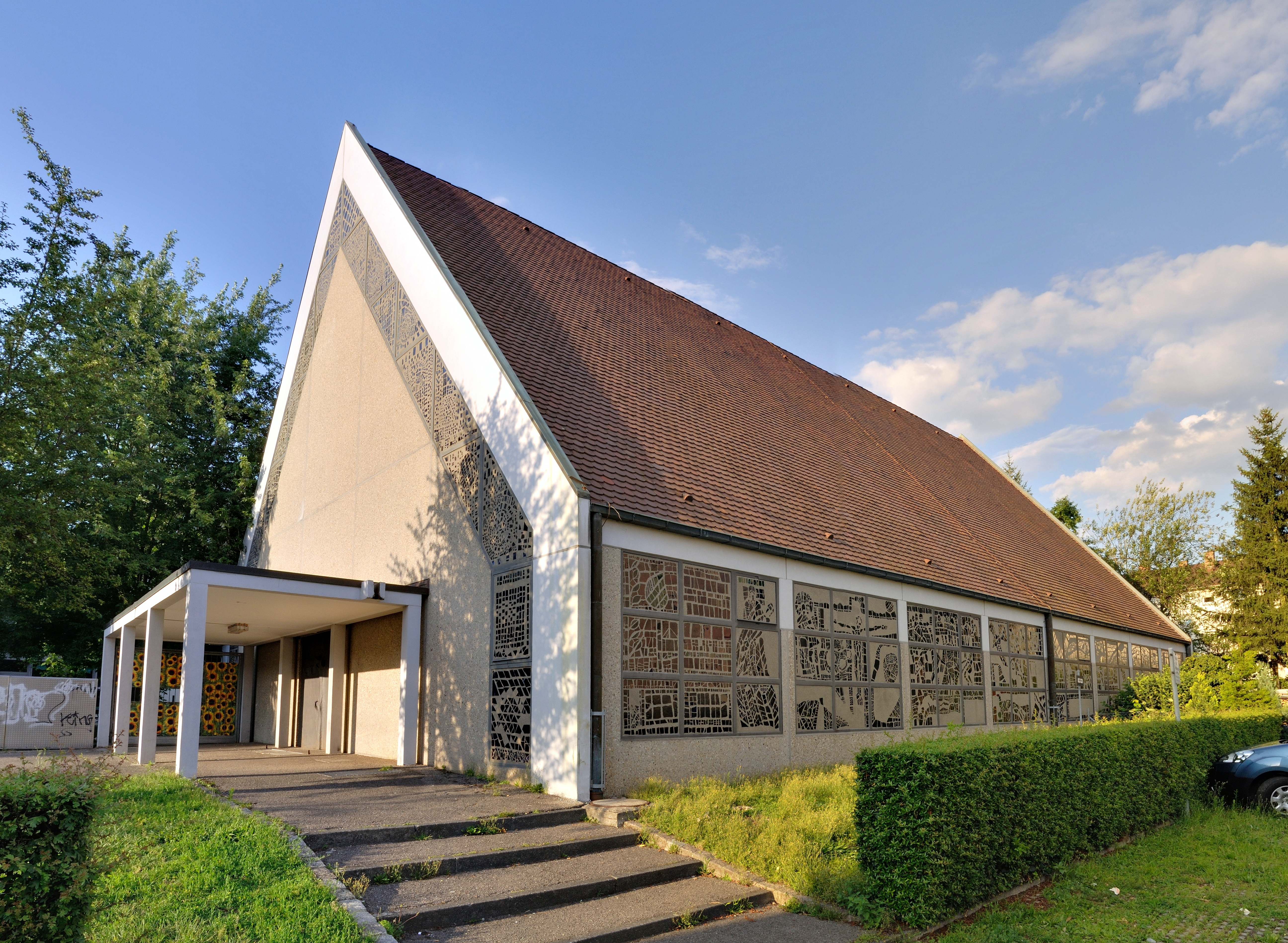 Lörrach: Holy Family Church